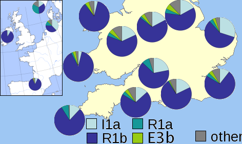 Y chromosome isolation by distance England/Wales. Map from commons. Made from data in "Y chromosome census of the British Isles" (2003) by Capelli et al.